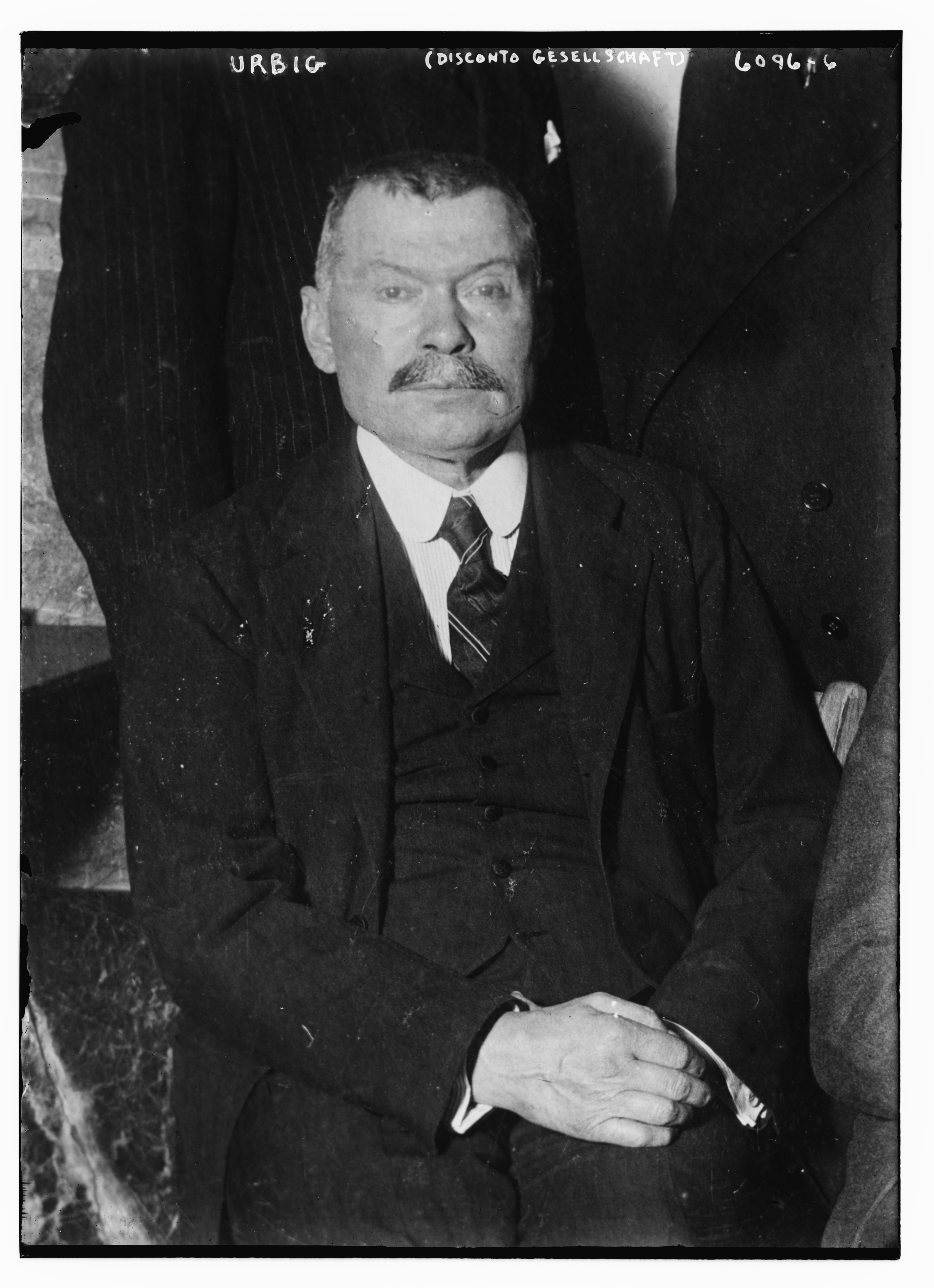 Title: Urbig (Disconto Gessellschaft) Abstract/medium: 1 negative : glass ; 5 x 7 in. or smaller.